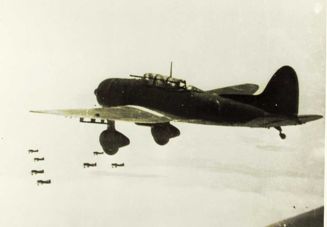 Title: Aichi, D3A, Val Navy type 99 Carrier bomber Notes: Japan Catalog #: 01_00090087 Manufacturer: Aichi Designation: D3A Official Nickname: Val Navy type 99 Carrier bomber Repository: San Diego Air and Space Museum Archive Tags: Aichi, D3A, Val Navy type 99 Carrier bomber, Japan